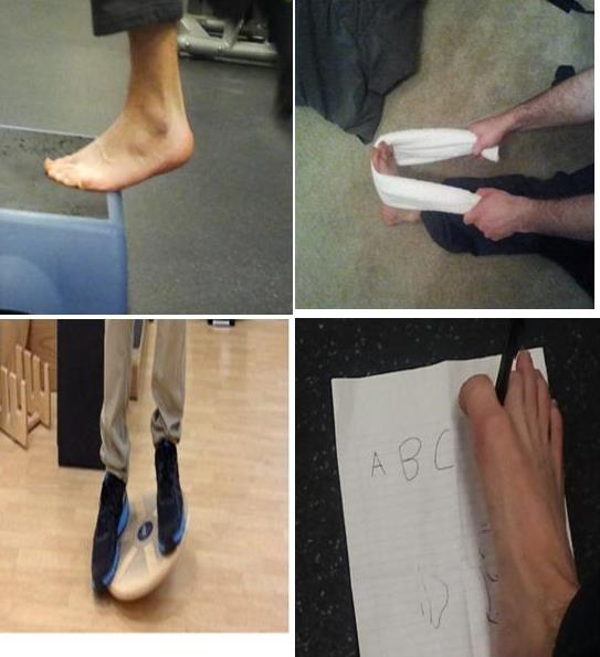 These exercises will help regain flexibility, strength, and agility for the ankle.